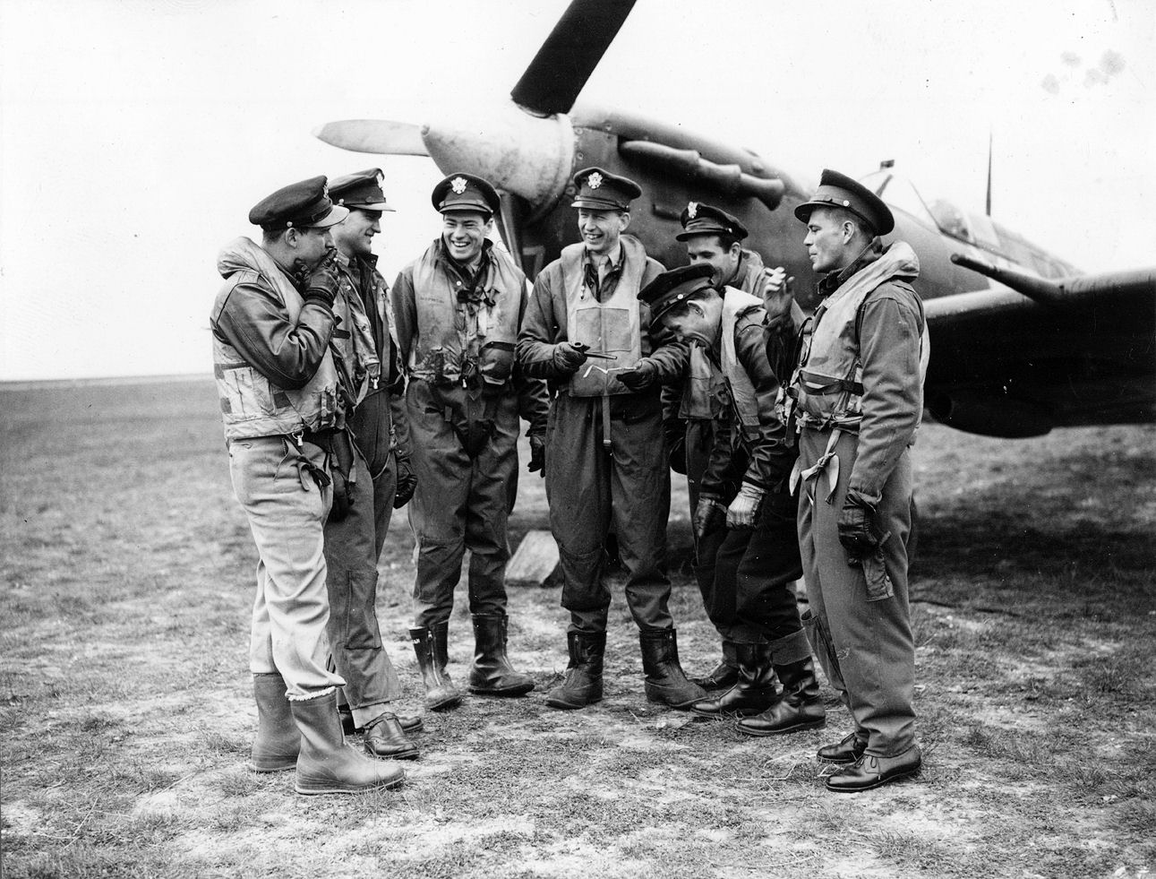 Pilots from the 4th Fighter Group sharing a smoke in front of a Spitfire at Debden air base. The pilot in the centre holding a pipe and a piece of paper is Lieutenant-Colonel Chesley G. Peterson. Third from left is Captain W.T. O'Regan. Passed by the U.S. Army censor on 30 March 1943. Printed caption attached to print: 'Lt. Col. Chesley G. Peterson D.S.O., D.F.C., U.S. Army Air Force 4th (crossed through with censor's red pencil) Group Britain, who formerly commanded the old Eagle Squadron, seen at an Air Force station somewhere in England with his flight group.' And '23478. Lt. Col. Chesley G. Peterson (centre) in front of his Spitfire has a talk with his flight group, and they seem very pleased with the raid they are going to carry out. S&G D.M.'